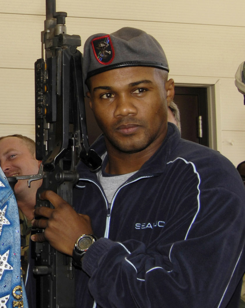 Puerto Rican boxer Félix Trinidad posing with an M-240 during a visit to the 720th Advanced Skills Training flight